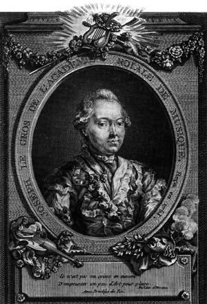 Joseph Legros (1739–1793), French operatic haute-contre (high tenor), who sang leading roles at the Académie Royale de Musique in Paris